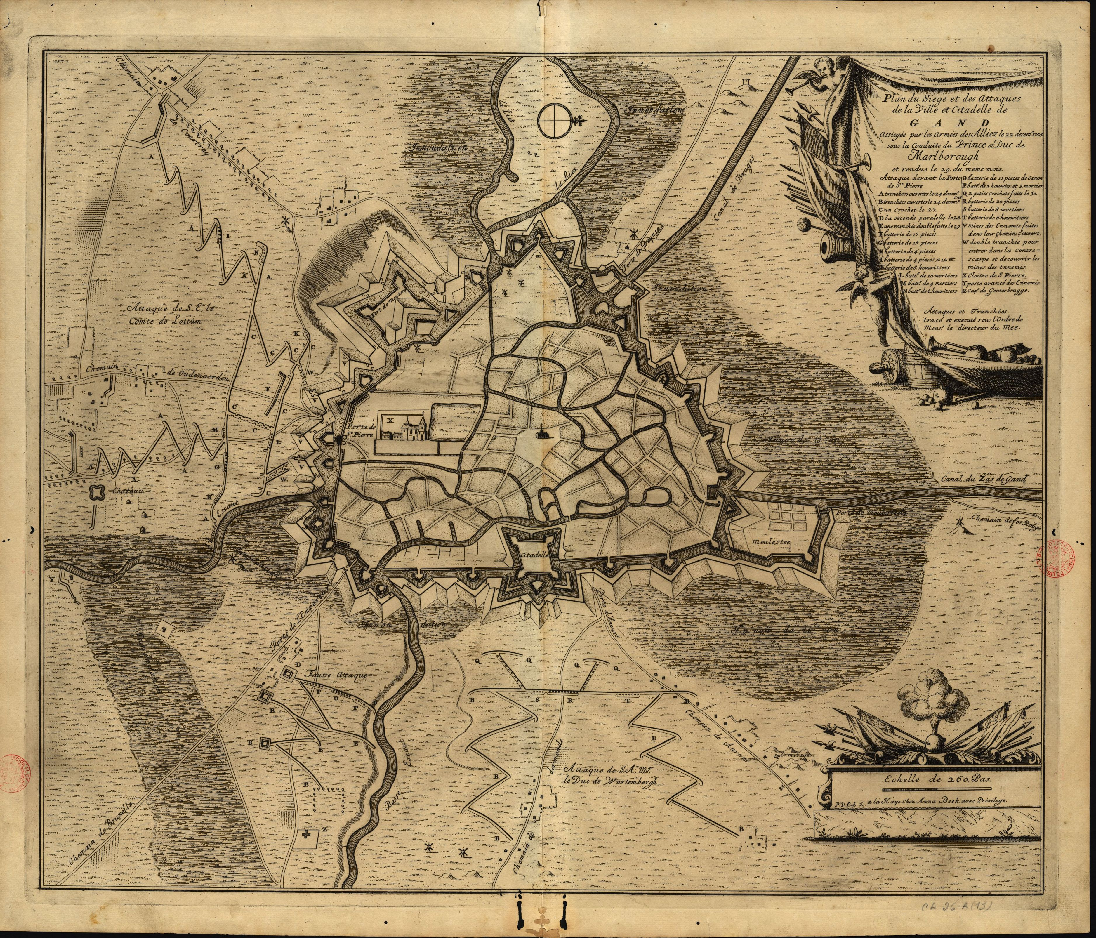 PLAN DU SIEGE ET DES ATTAQUES DE LA VILLE ET CITADELLE DE GAND Plan du Siege et des attaques de la ville et citadelle de Gand [ca. 1:3300]. - A la Haye : Chez Anna Beck, [17--]. - 1 carta : imp. em papel ; 58x49 cm